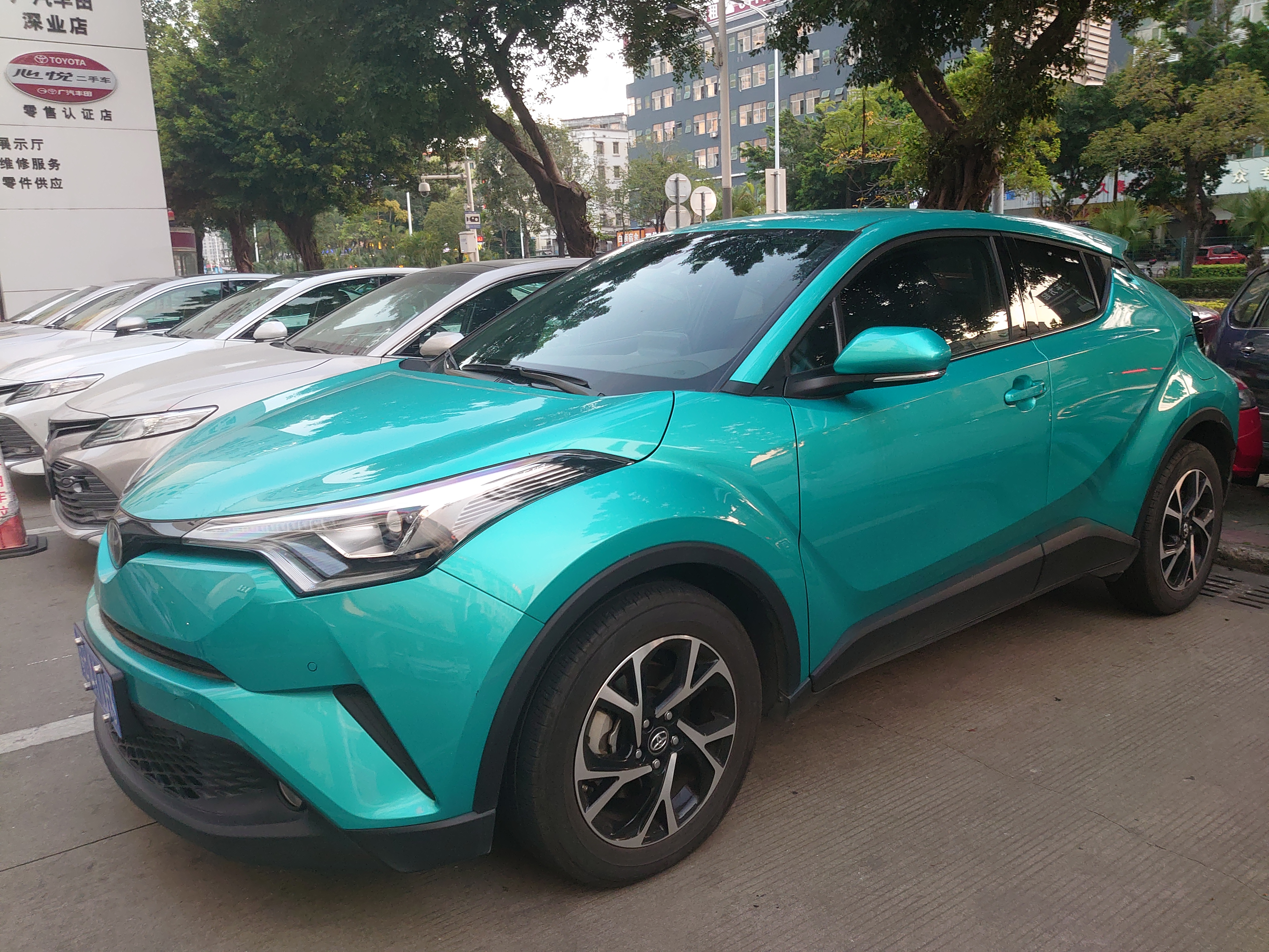 2018 GAC Toyota C-HR. Photographed in Shenzhen, Guangdong, China.